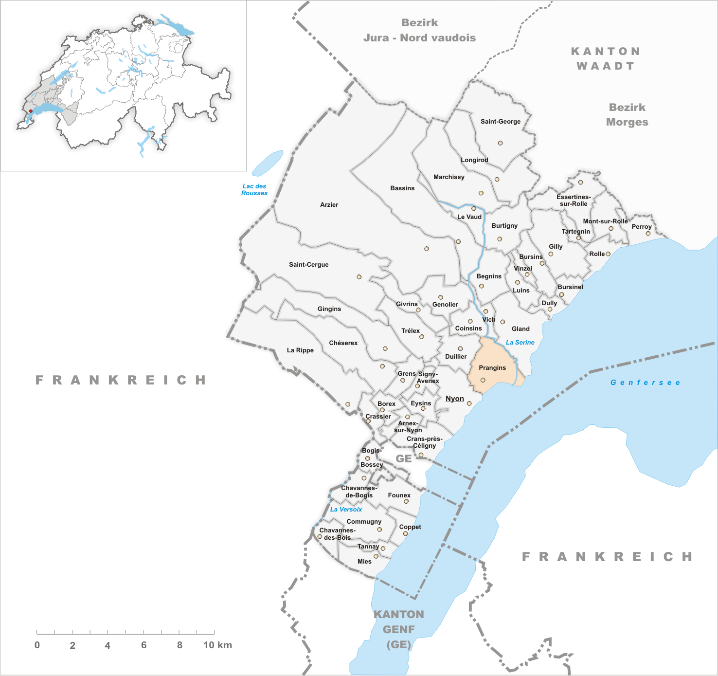 Municipality Prangins